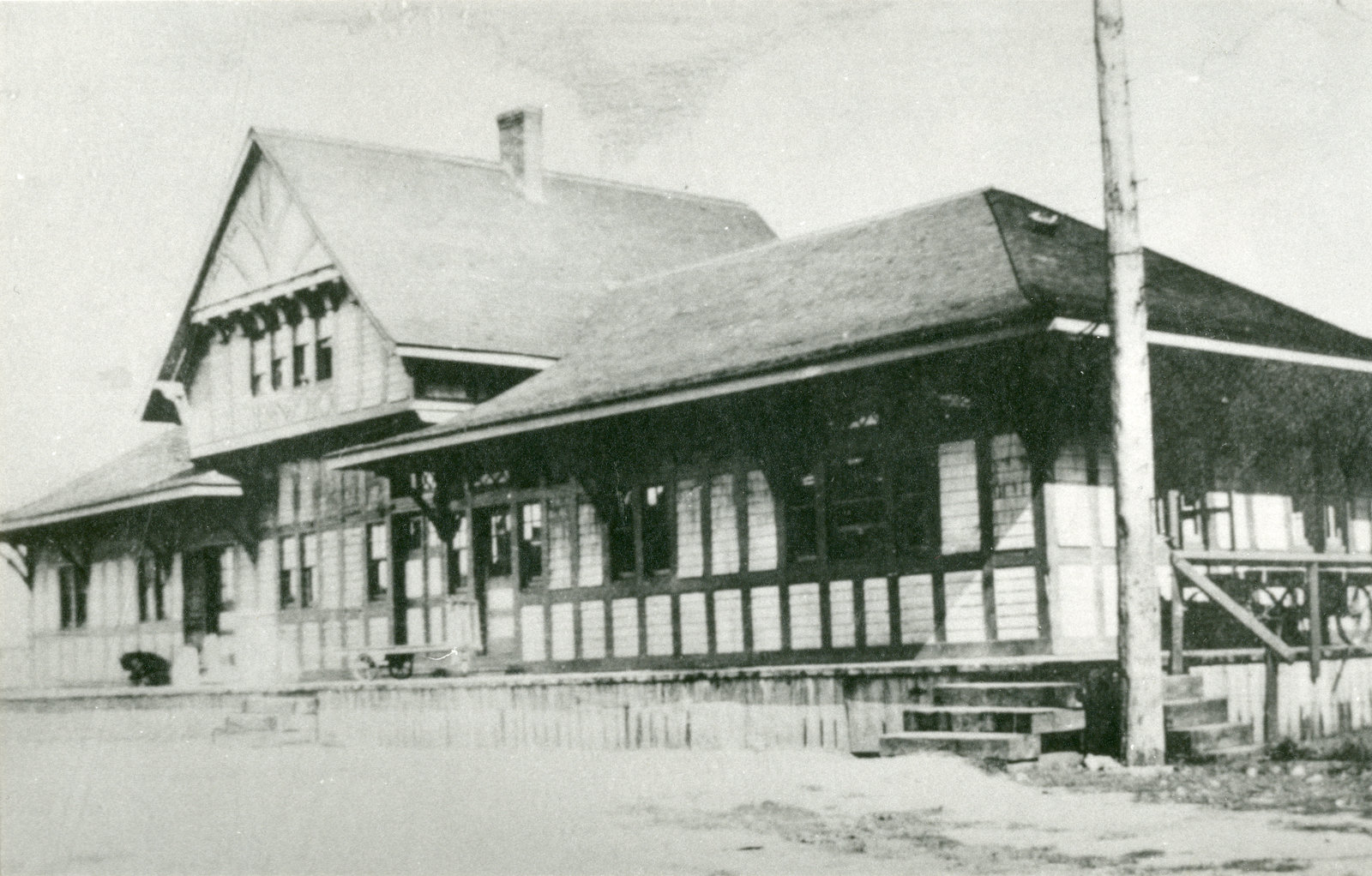 Postcard of the original C.P.R. Station in Schreiber.